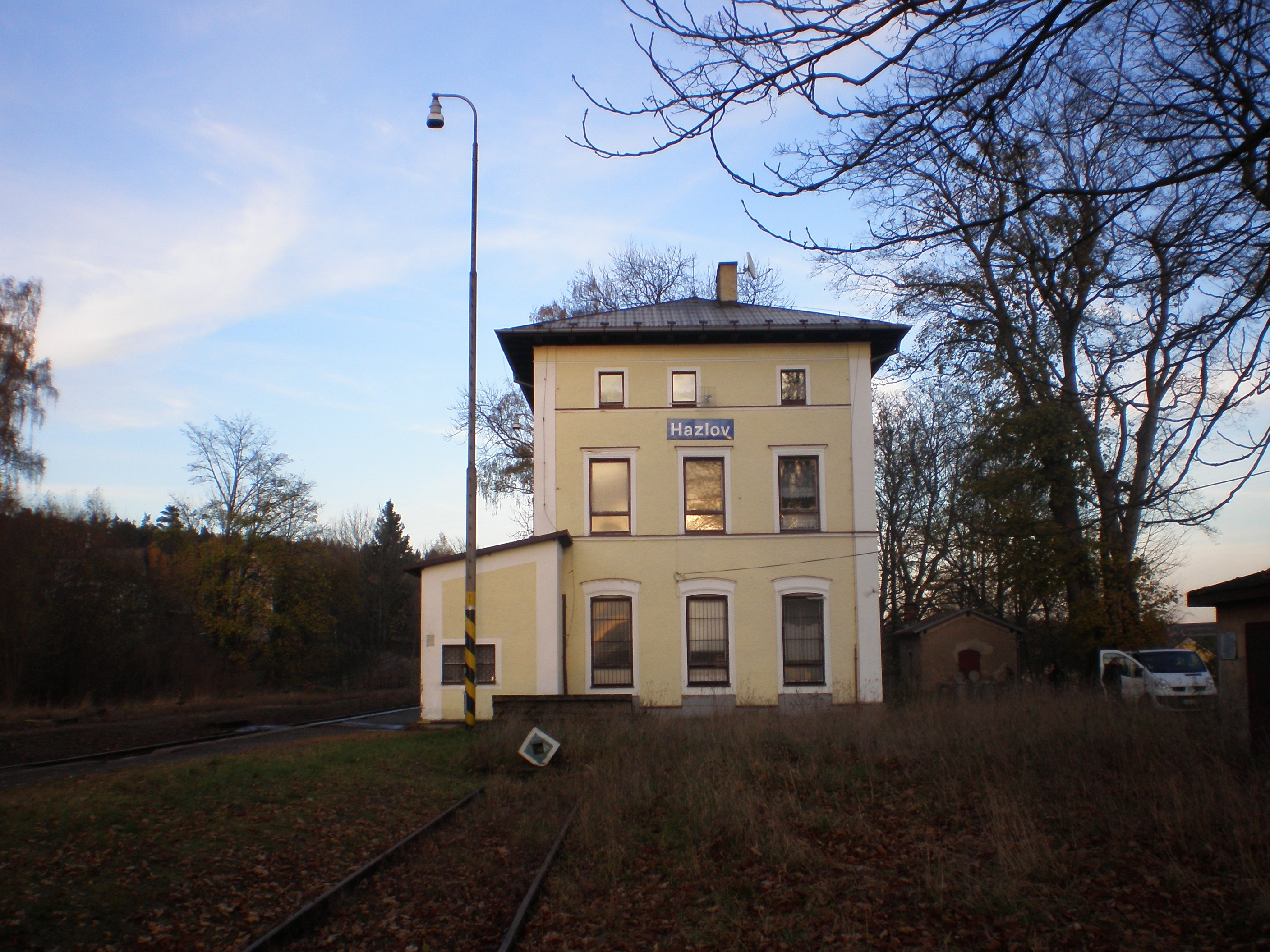 Train Station in Hazlov municipality, Cheb District, Czech Republic.